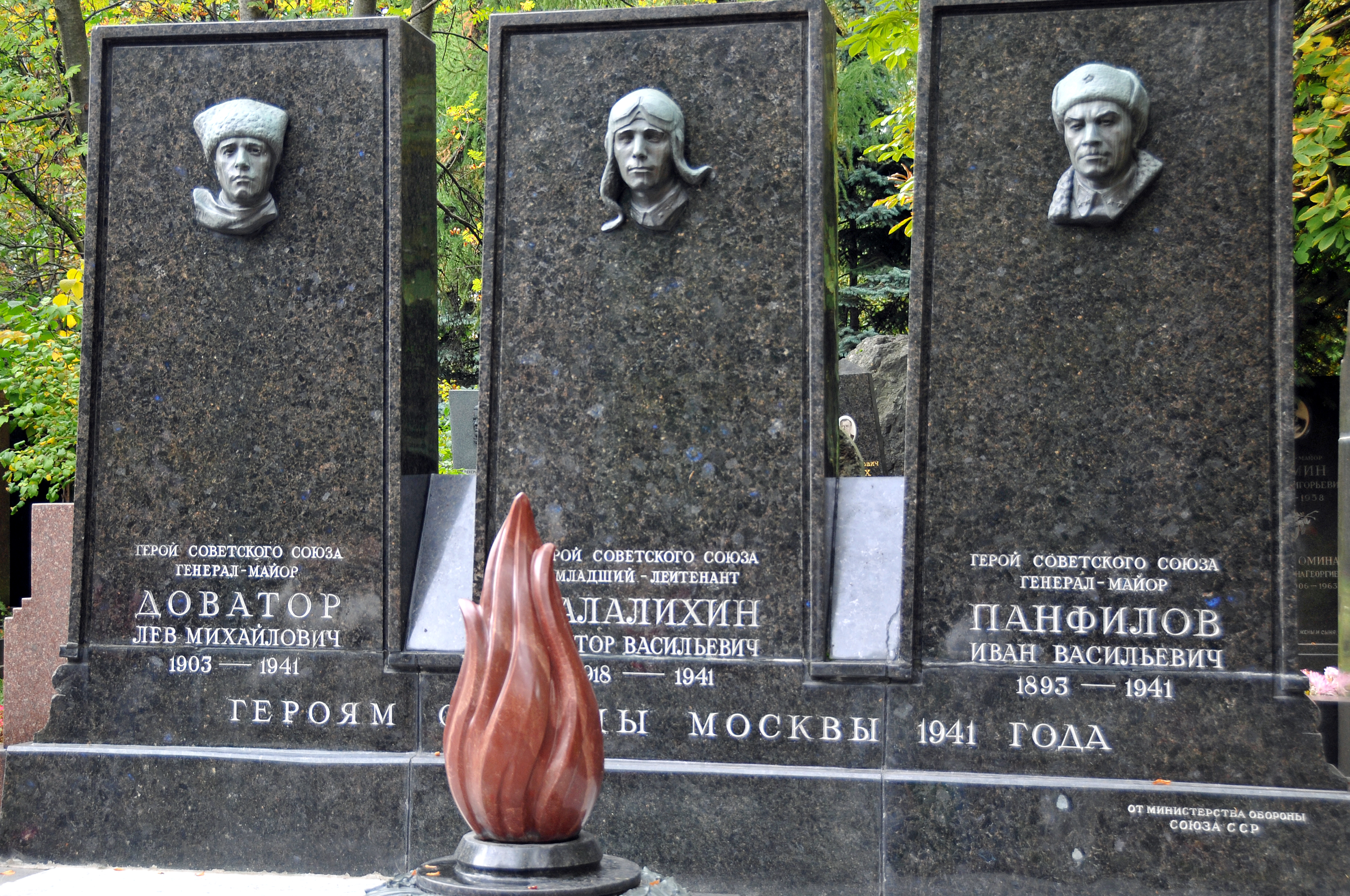 PLEASE, no multi invitations in your comments. Thanks. I AM POSTING MANY DO NOT FEEL YOU HAVE TO COMMENT ON ALL - JUST ENJOY. A monument to the defenders of Moscow in 1941